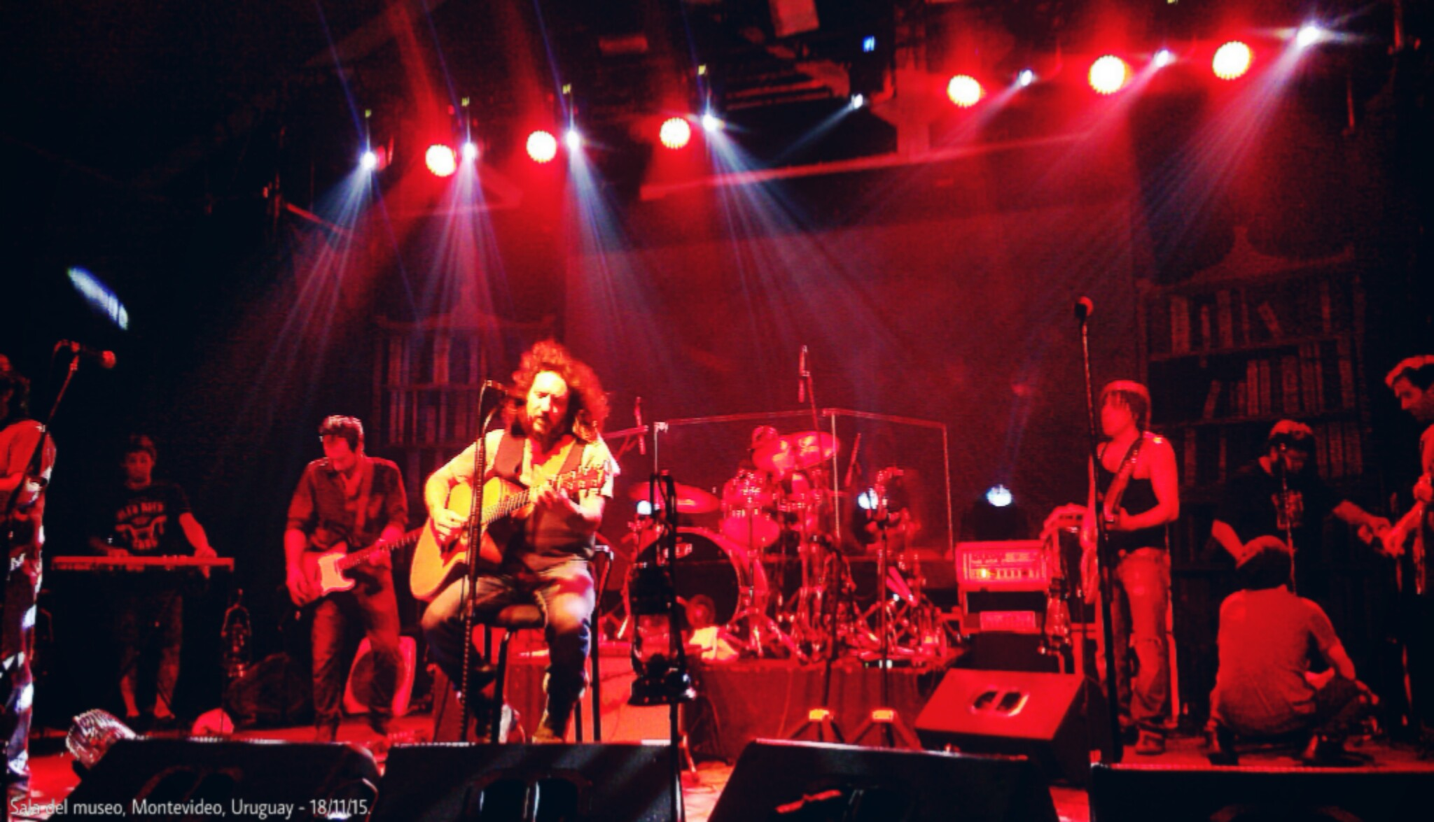 La Vela Puerca, en un recital el 18/11/15 en Sala del Museo del Carnaval, Montevideo, Uruguay.